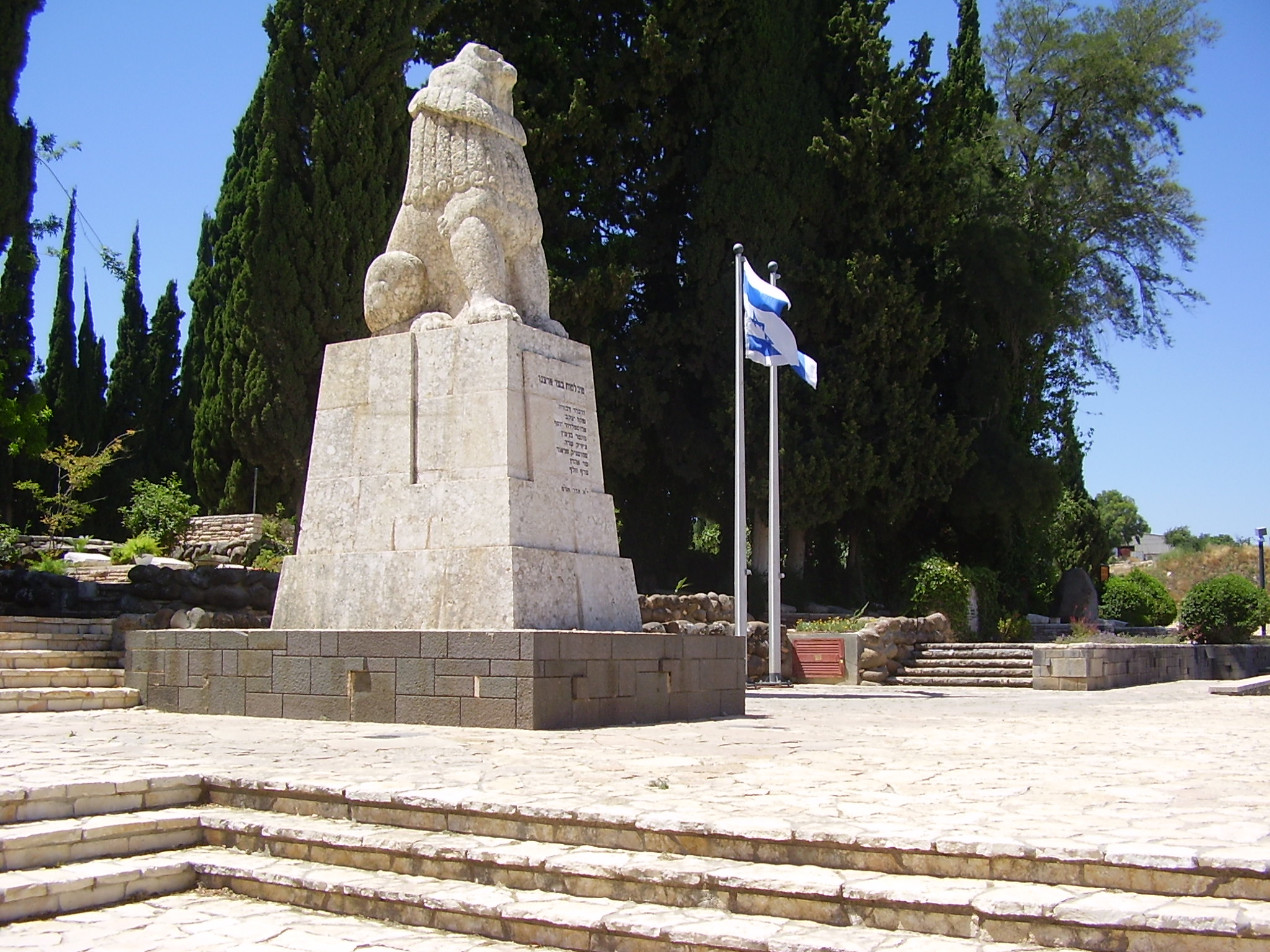 Geography of Israel